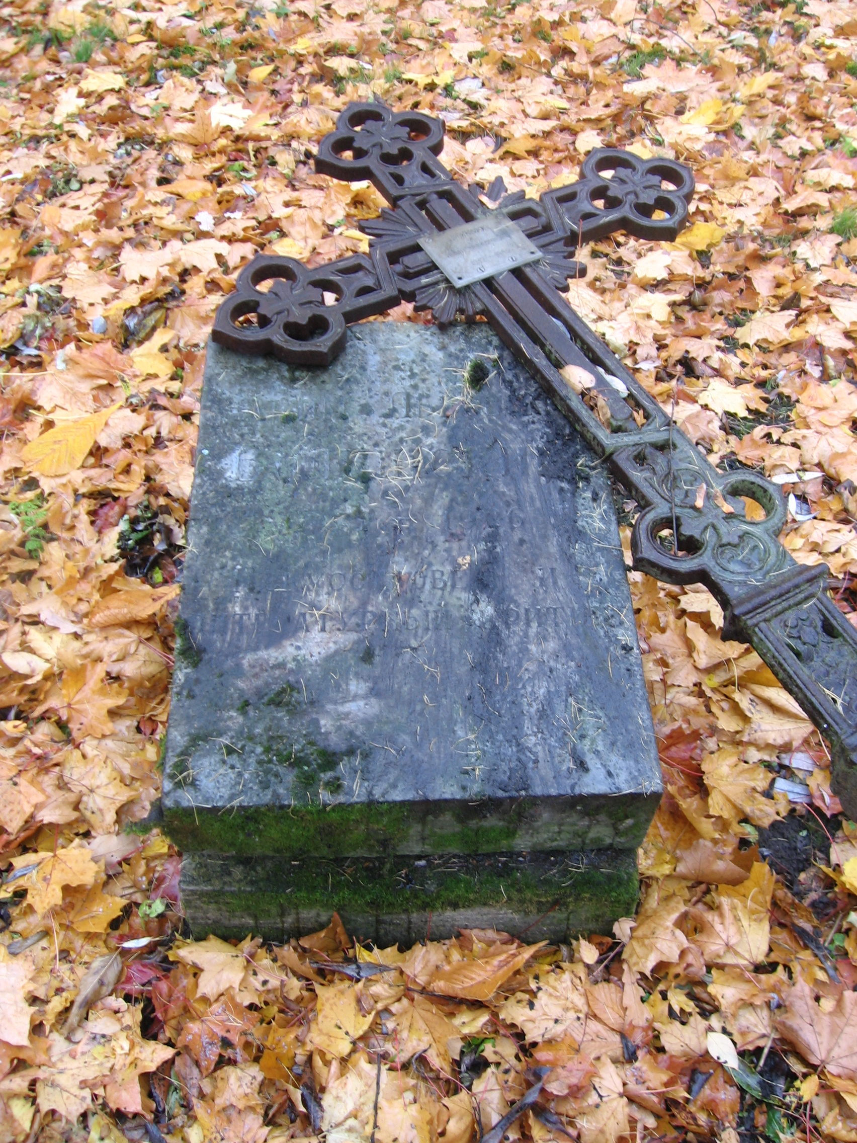 Grave of Akim Volynsky